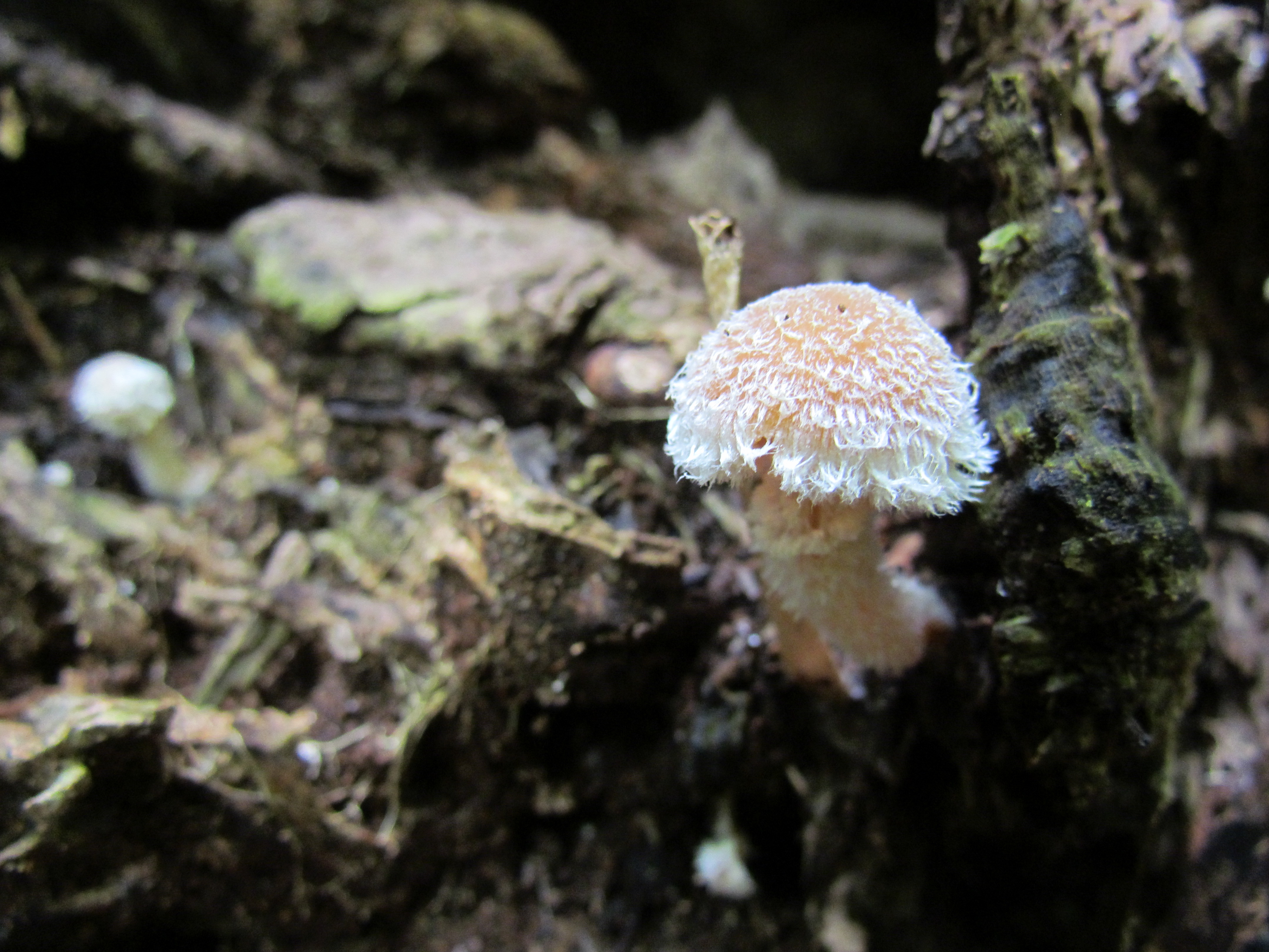 Psathyrella sacchariolens, specie found for the first time in 2012 in the Boisé-des-Muir ecological reserve. To this day (2014), it is still the only Quebec site where this specie have been found.